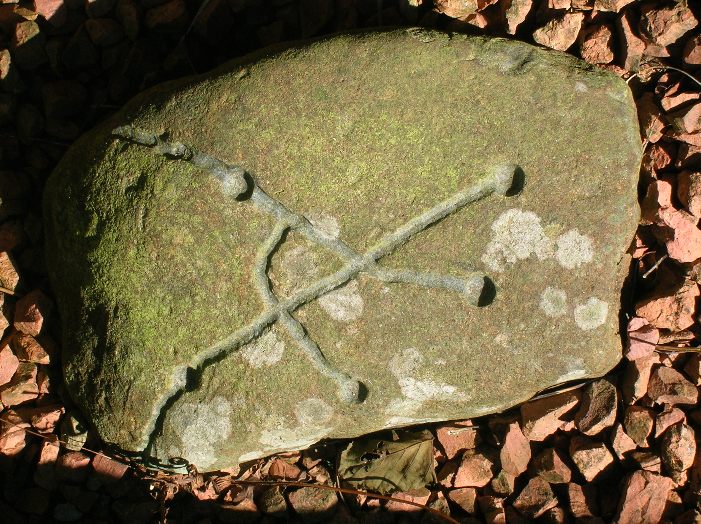 A replica of a Cup and Ring mark stone from Dalgarven Mill, Kilwinning, North Ayrshire